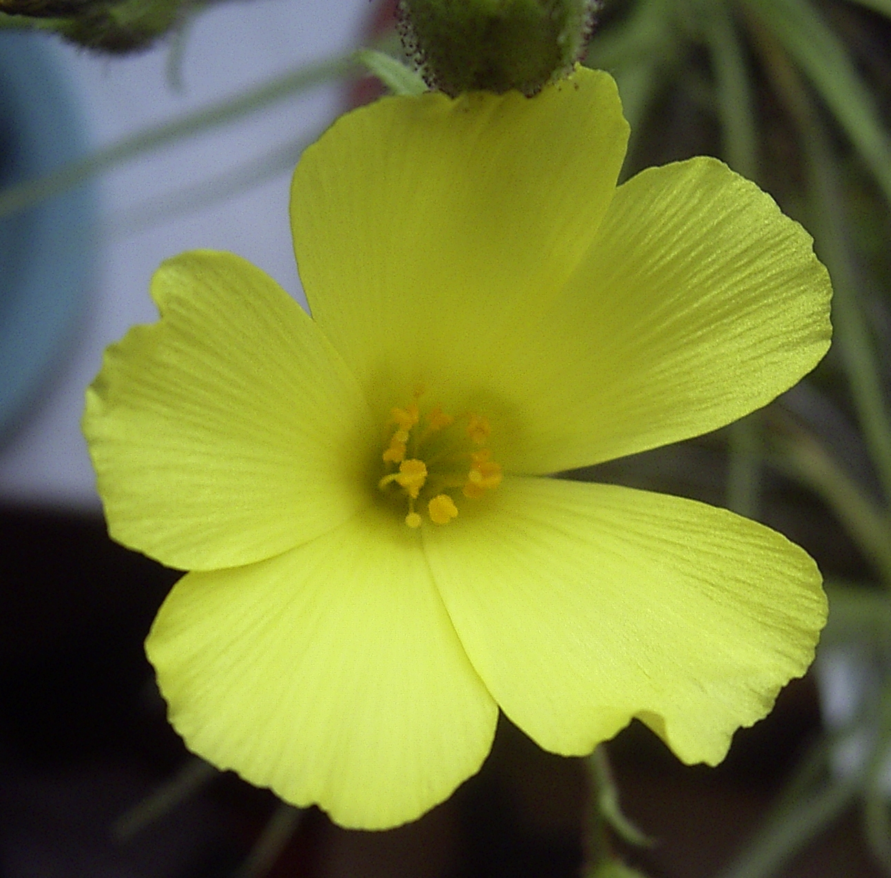 Flora Drosophyllum lusitanicum Author: own work